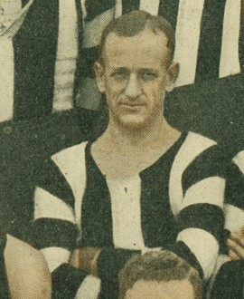 Photograph of Jiggy Harris from 1925-1929